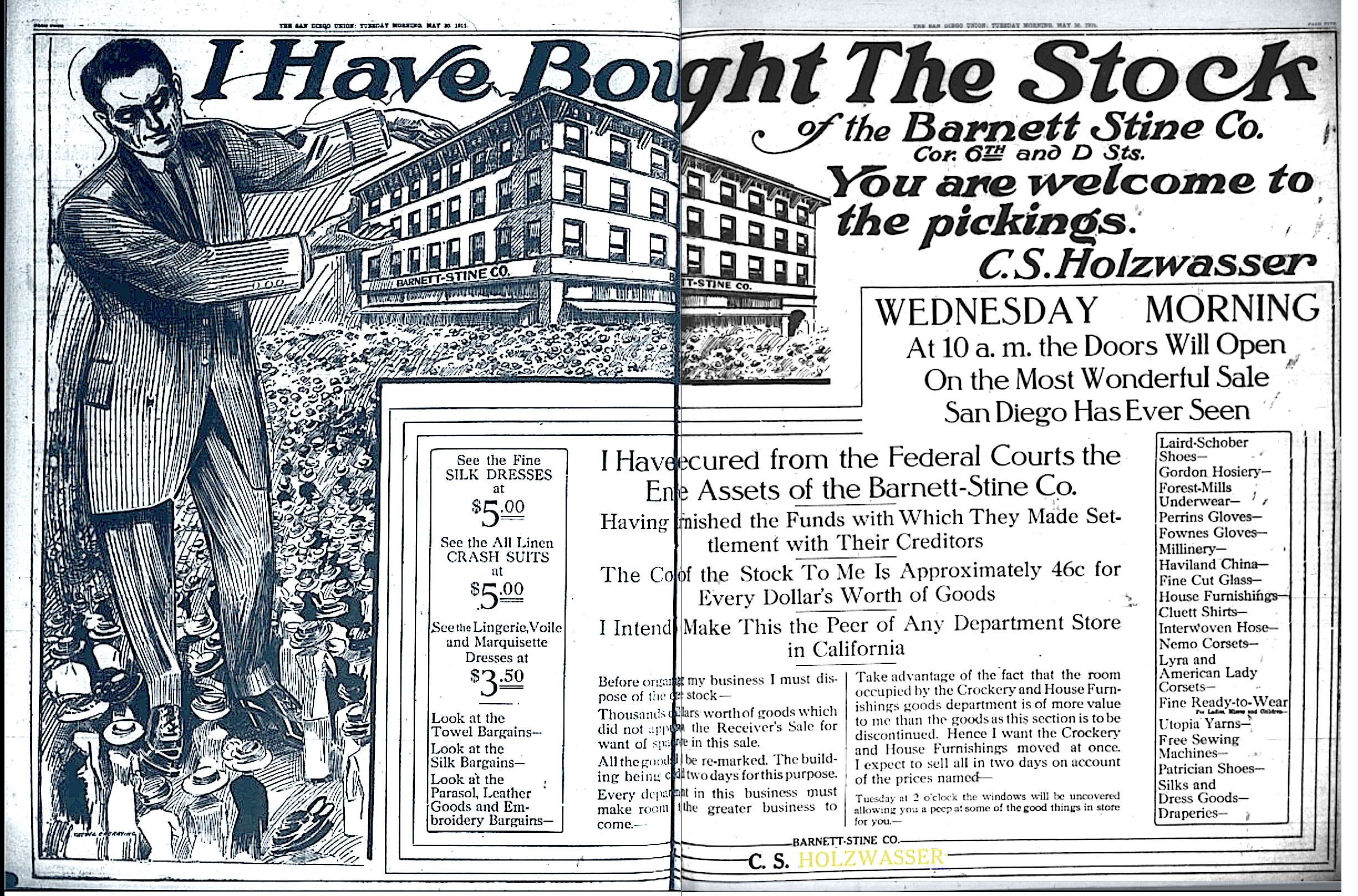 Holzwasser buys out Barnett Stine ad San Diego- ad May 30, 1911